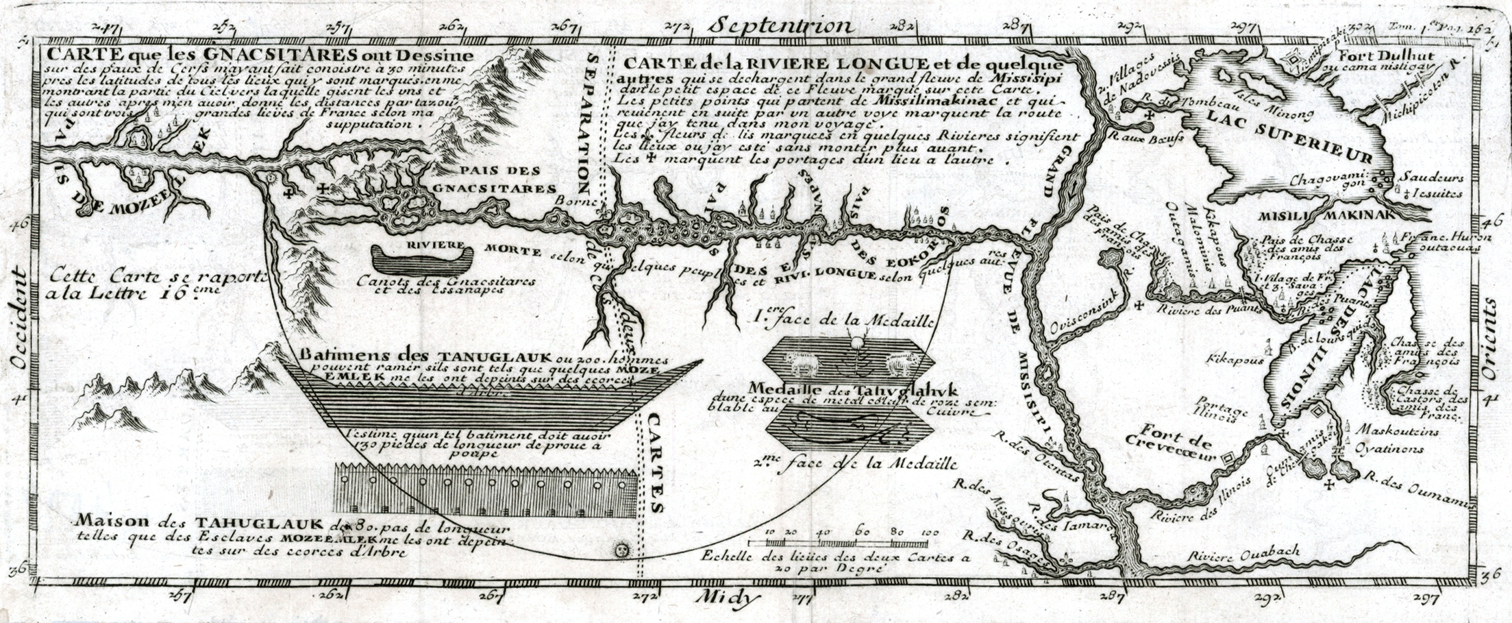 Map depicting Baron de Lahontan's west-east Long River (Riviere Longue), rising in distant western mountains and emptying into the upper Mississippi. The map extends east to the Great Lakes to show Lac Superieur, and Lac de Illinois (Michigan), along with a number of the early French forts and fur trading outposts.